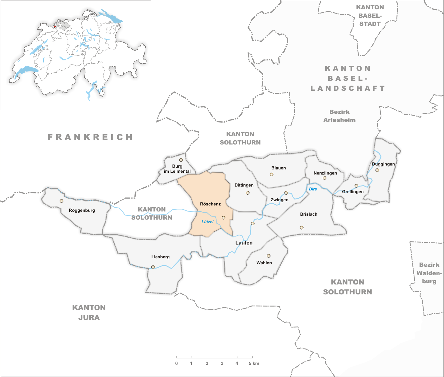 Municipality Röschenz